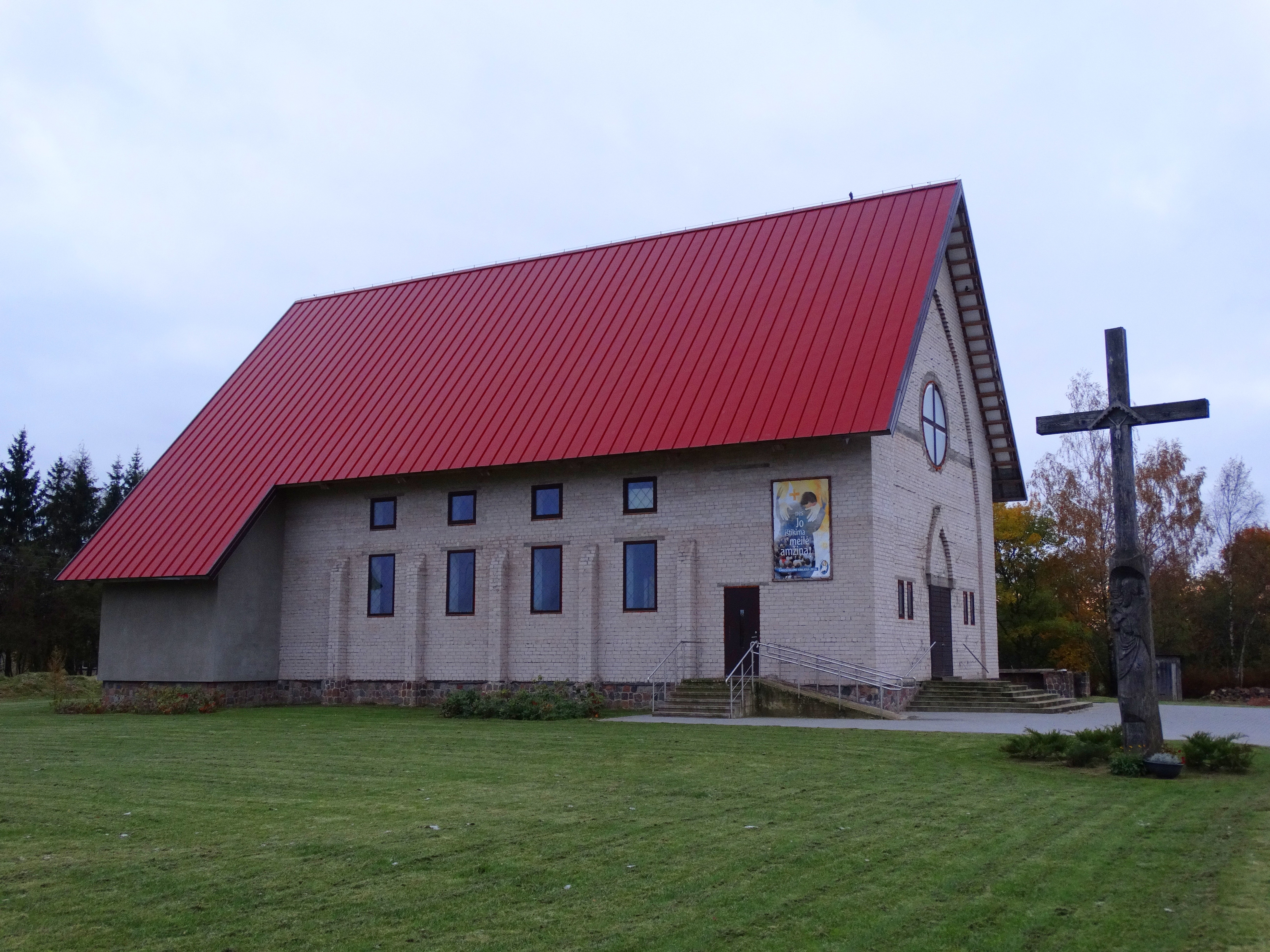 St. Matthew's Catholic Church in Kūlupėnai, Kretinga District, Lithuania